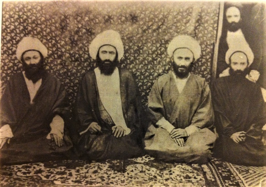 Sitting, Left to right: Ismael Naghneie-Agha Najafi-Ali Akbar Sheikholeslam- unknown